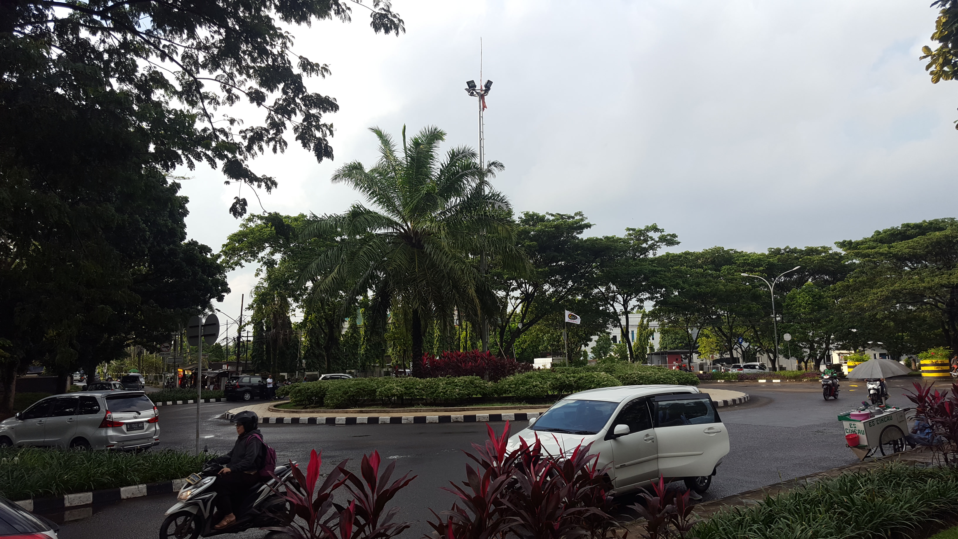 Roundabout in Perigi Lama, Pondok Aren, South Tangerang